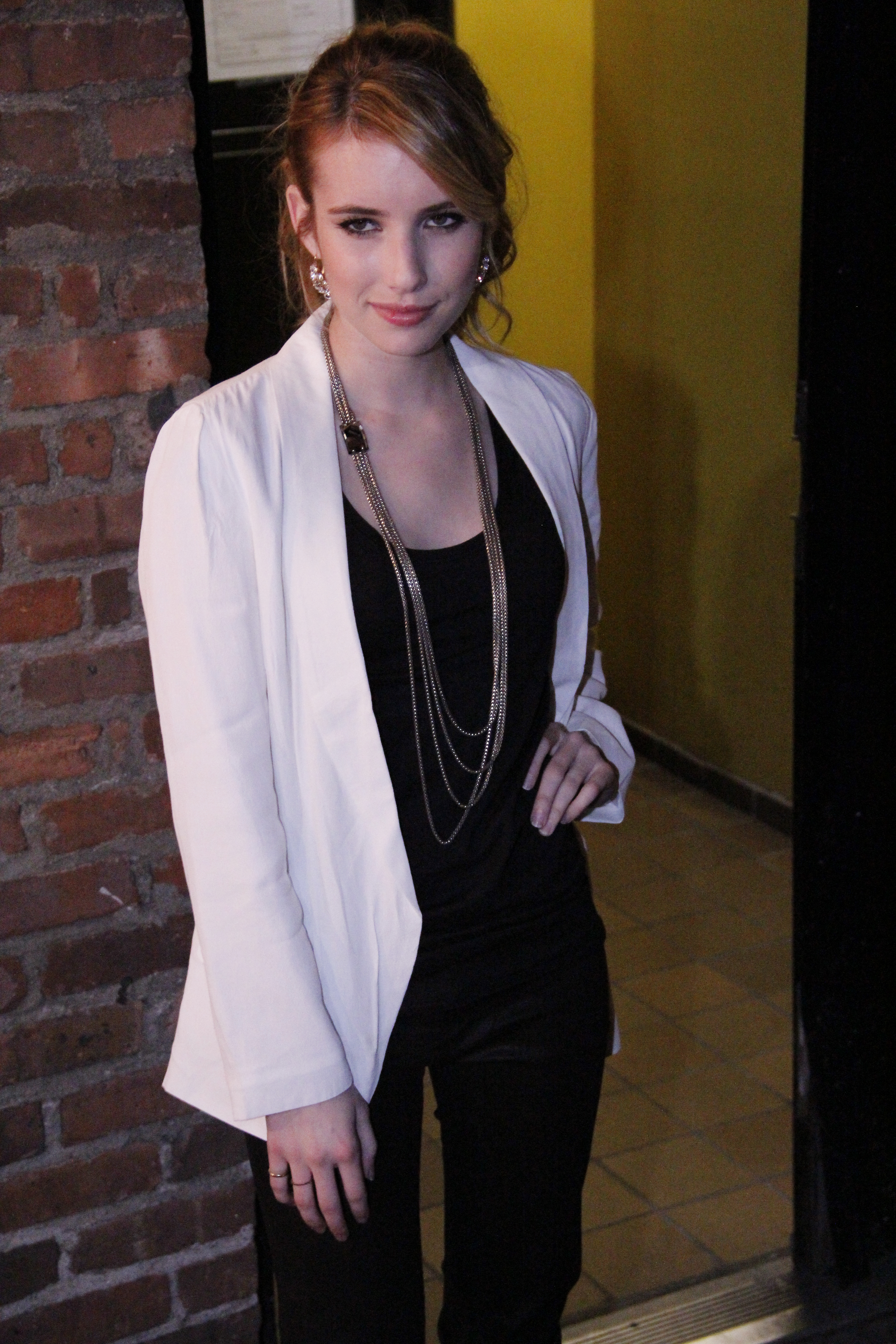 Denim Habit Store Opening October 19th 2011 Chelsea, New York